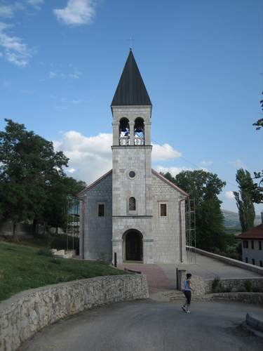 Marias-Concetion Church in Livno.